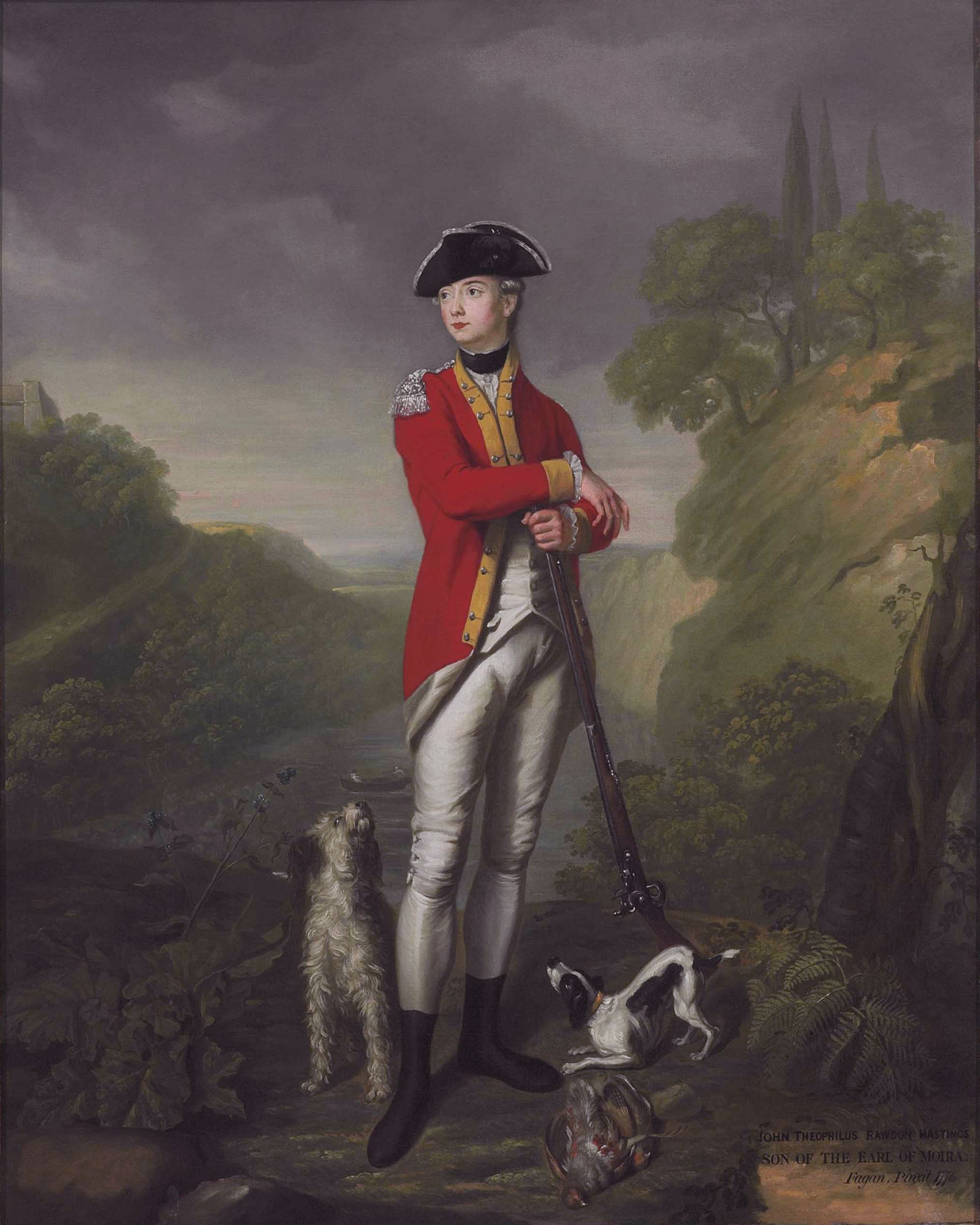 John Theophilus Rawdon-Hastings, son of the 1st Earl of Moira oil on canvas 88.9 x 71.1 cm inscribed (on a later date) l.r. JOHN THEOPHILUS RAWDON HASTINGS SON OF THE EARL OF MOIRA. Fagan, Pinxit 1776